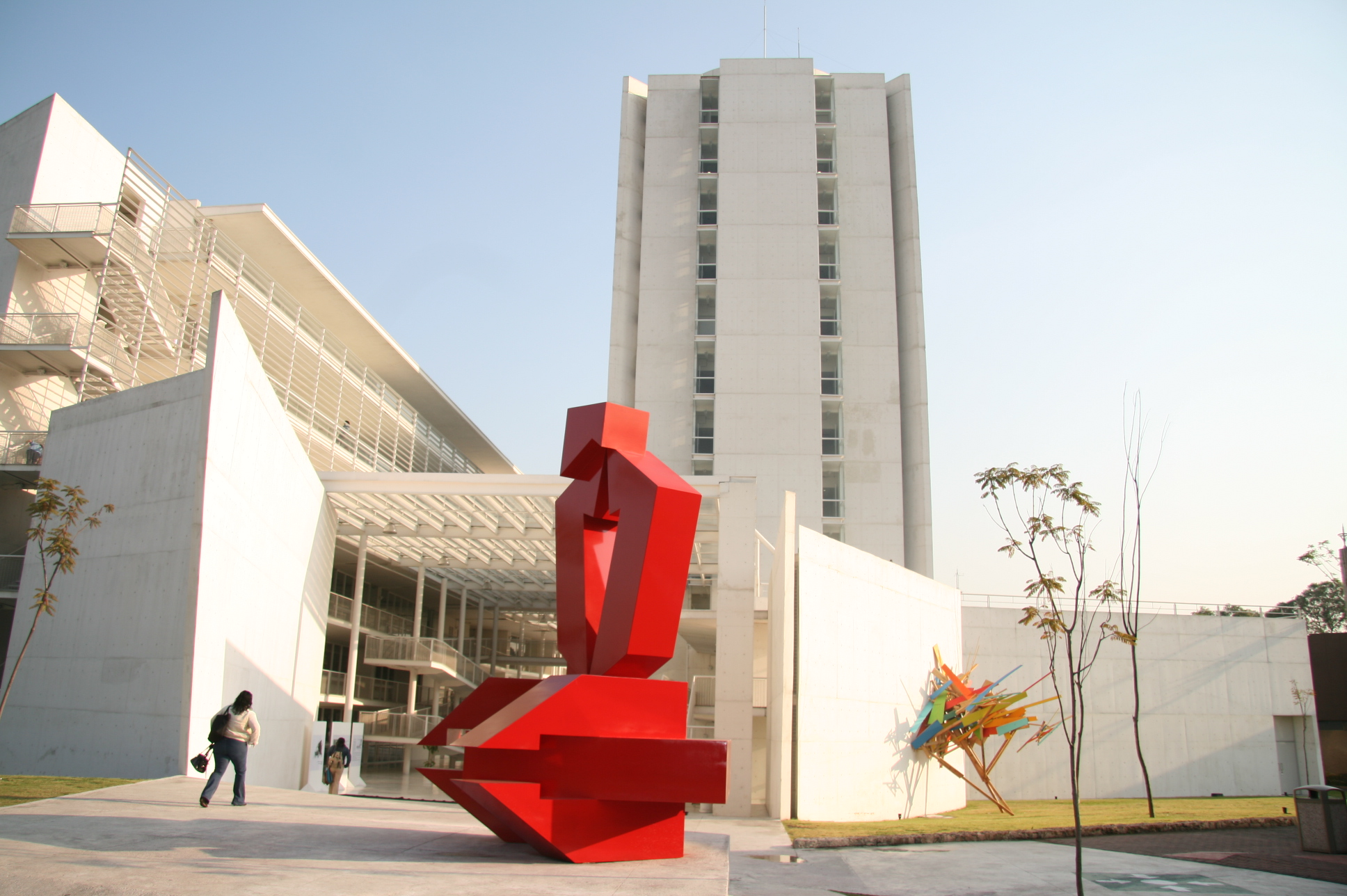 The Cedetec at the Tecnológico de Monterrey, Campus Estado de México.